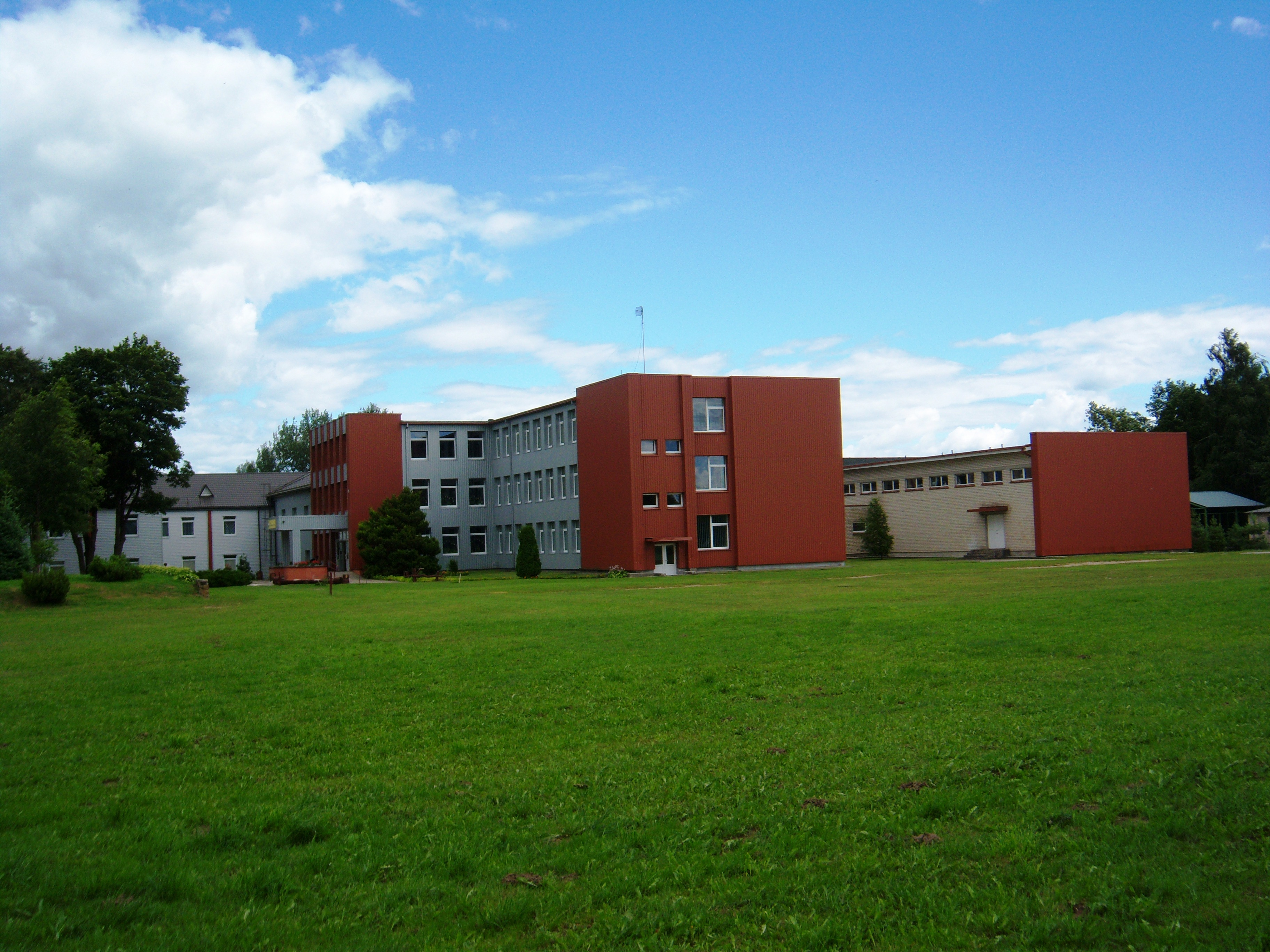 Principal school, Girkalnis, Raseiniai District. Lithuania